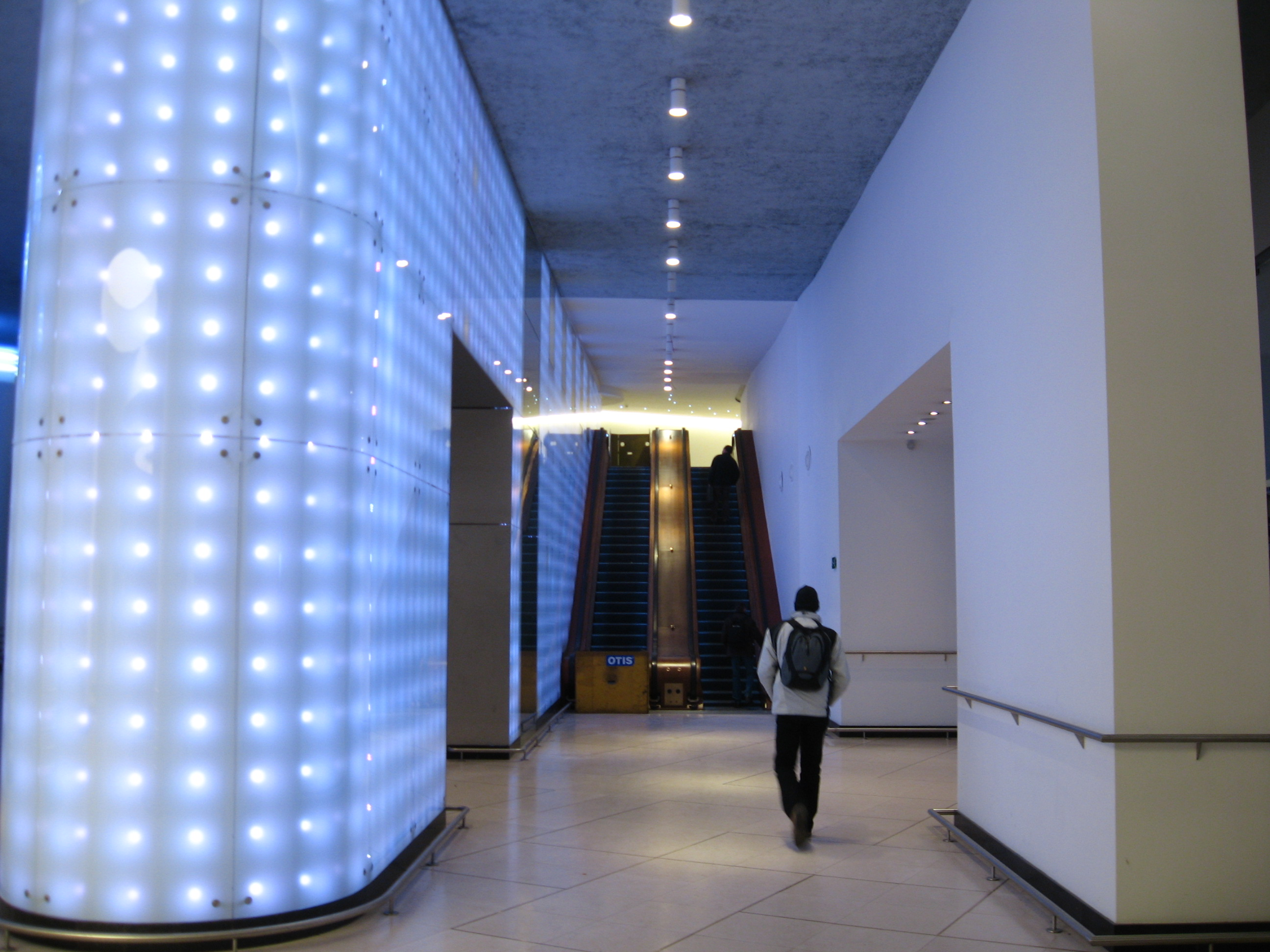 Lower level entrance from the city side.